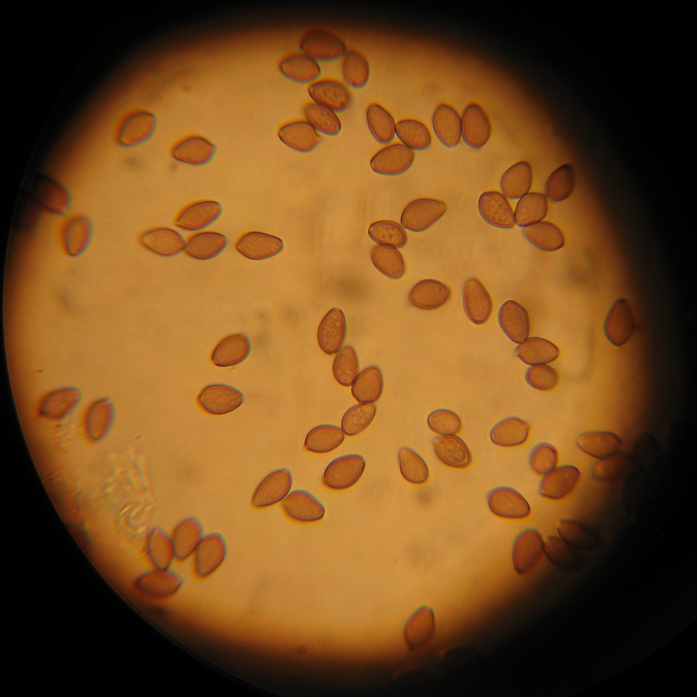 Psilocybe stuntzii spores. 1000x. BlimeyGrimey collection, Seattle, WA.